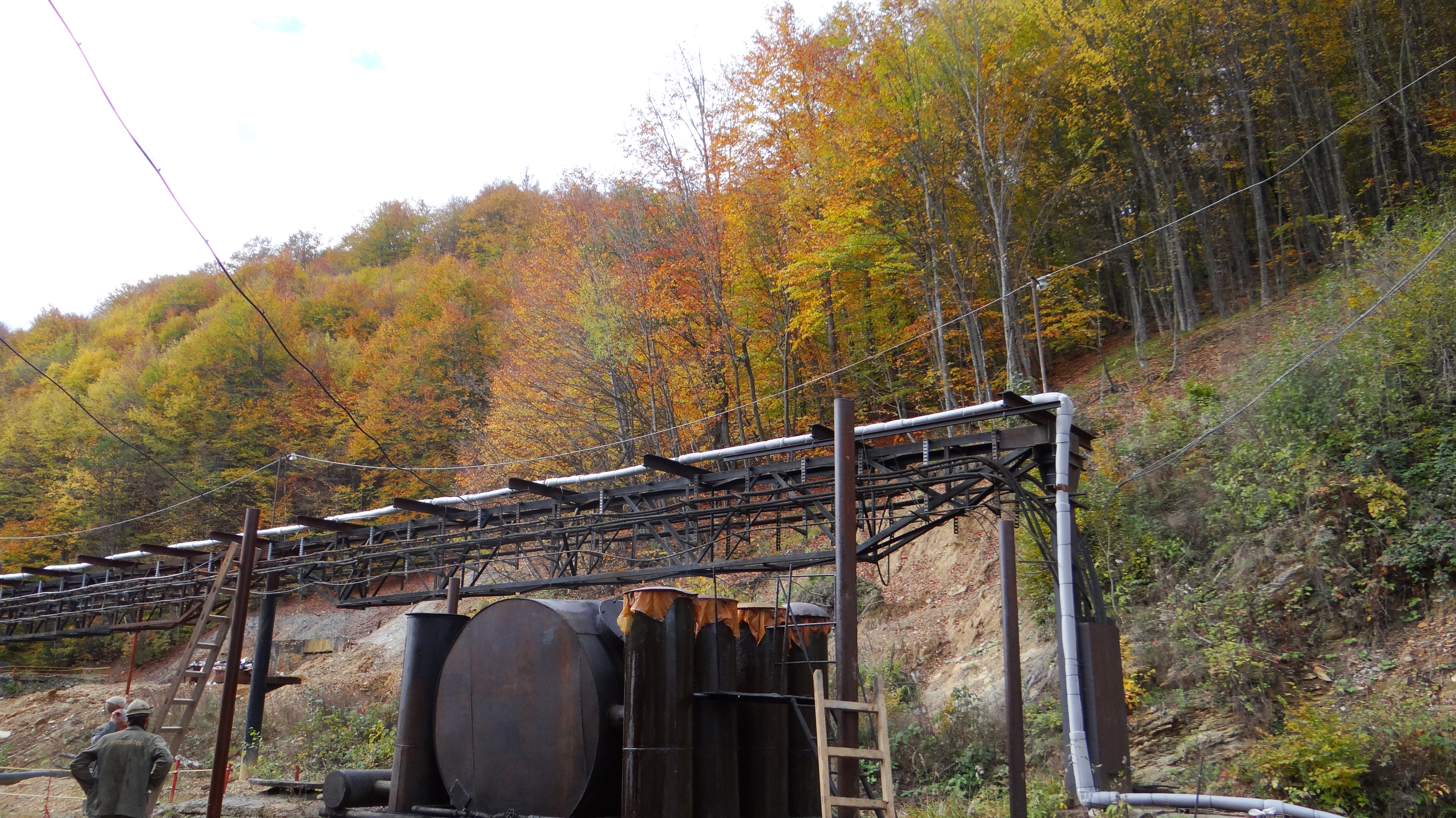 Urupsky District, Karachay-Cherkessia, Russia